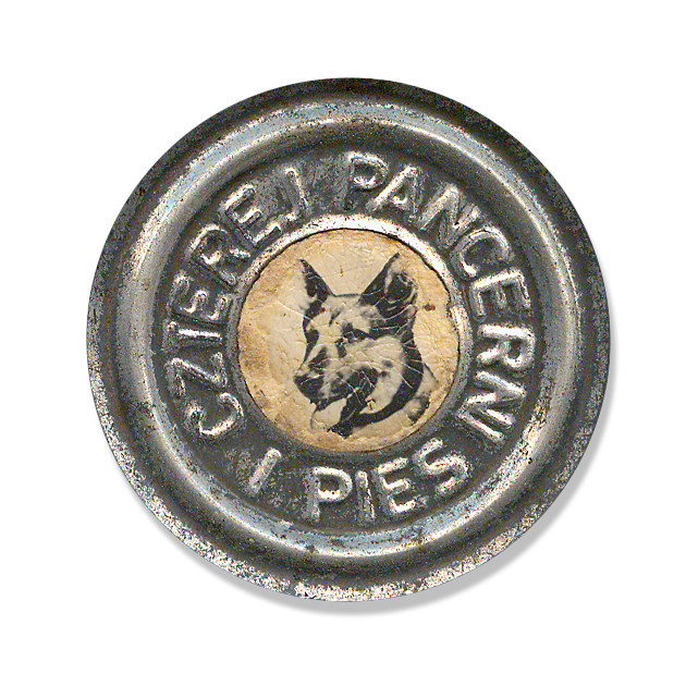 I bought this pin at a fleamarket, along with a lot of Soviet pins. I didn't know anything about its origin, or background. Now, I see it had to do with a Polish TV show, popular in the Soviet Union.